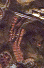 Morlans, Donostia, Gipuzkoa, Basque Country